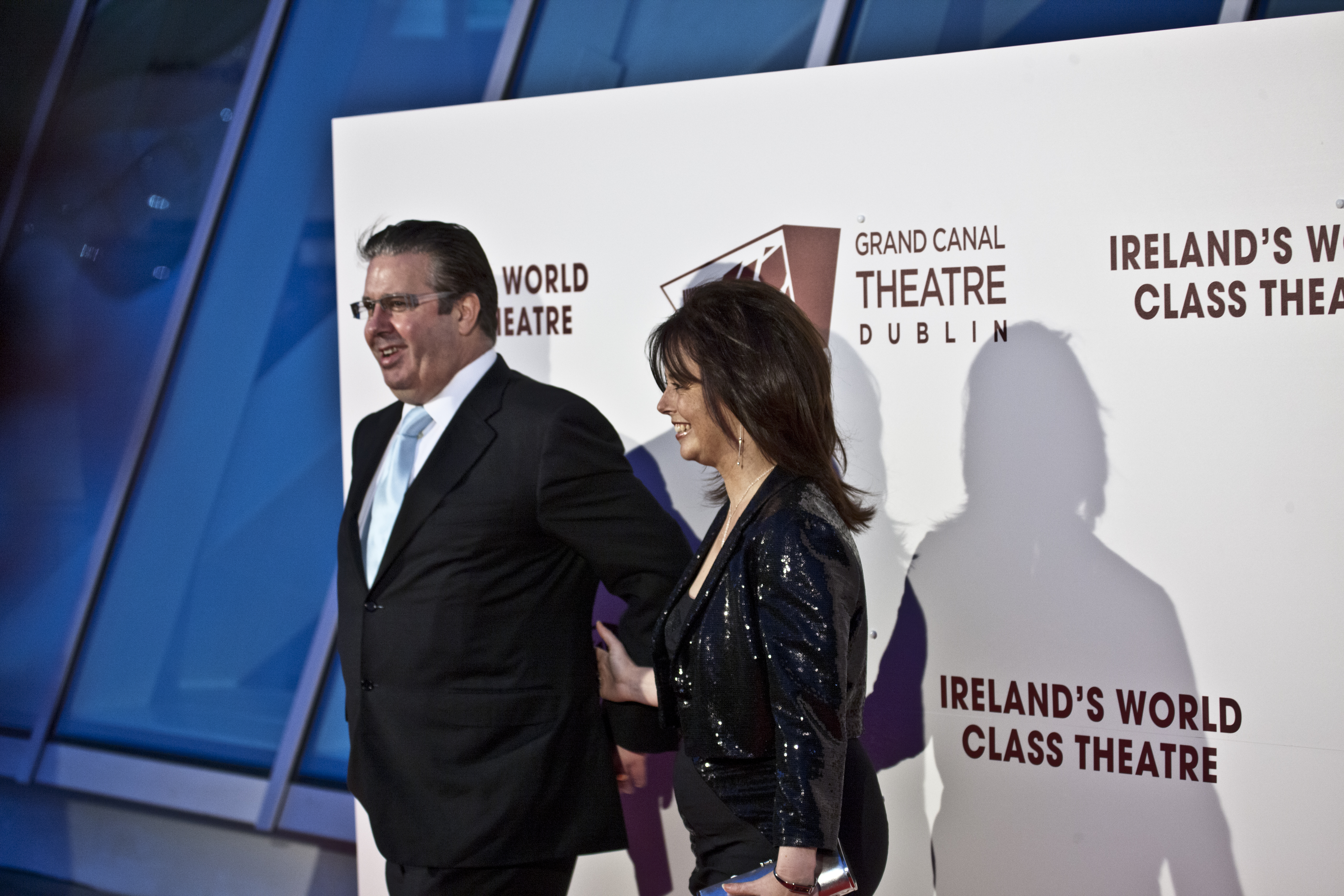 Gerry Ryan (left) at the opening of the Grand Canal Theatre in March 2010.